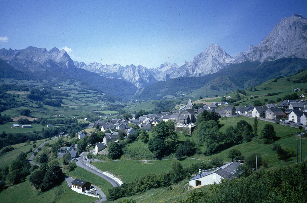 Village of Lescun in the Pyrenees. Remarkable village set in a valley high in the mountains.